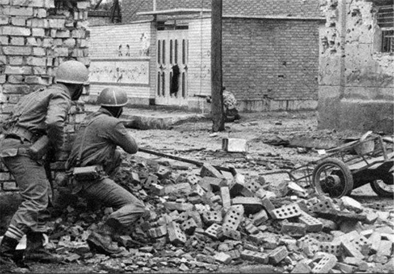 Iranian soldiers fighting in the Battle of Khorramshahr.